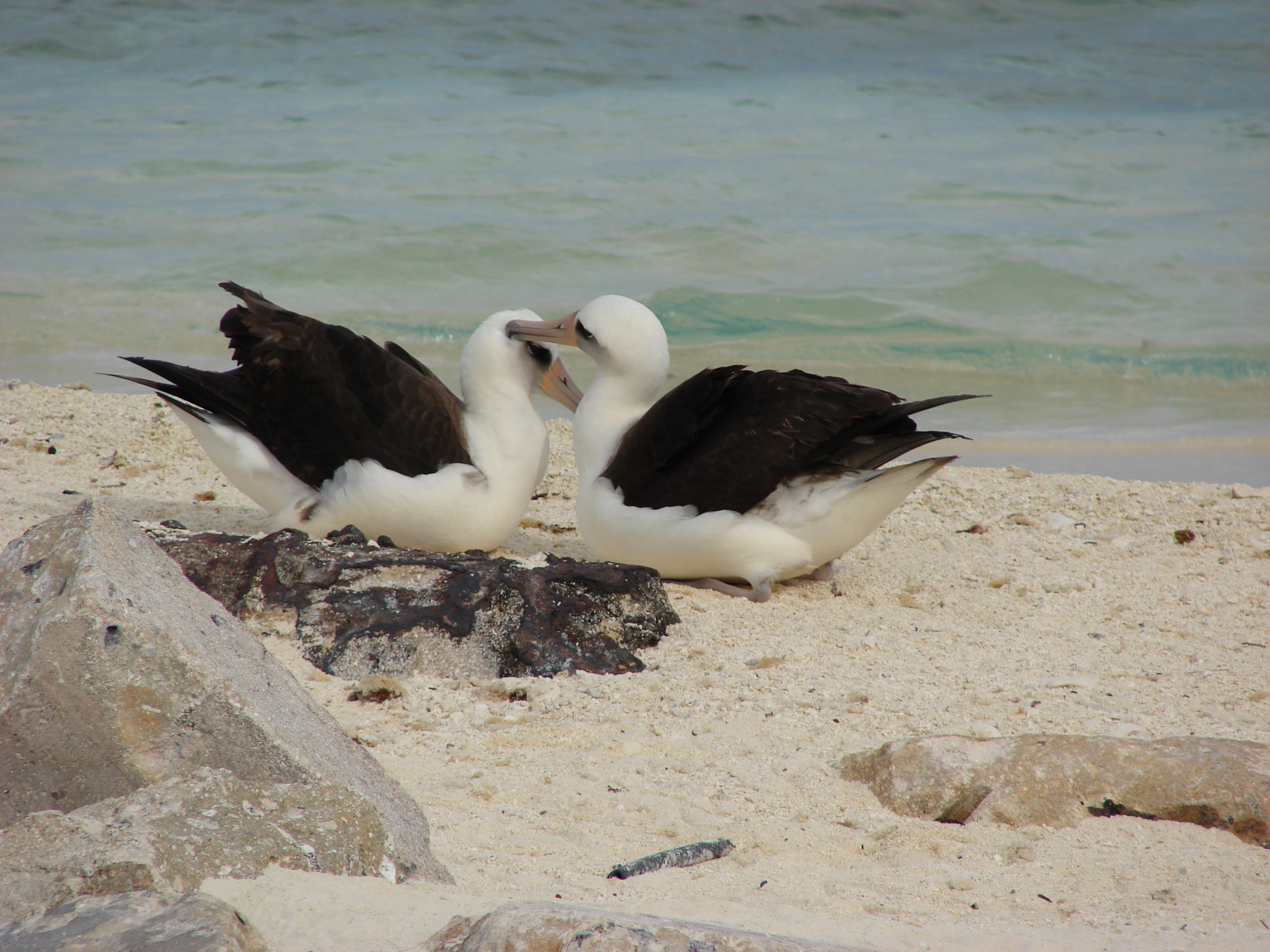 Ipomoea pes-caprae subsp. brasiliensis (habitat with preening Laysan albatross pair). Location: Midway Atoll, Eastern Island